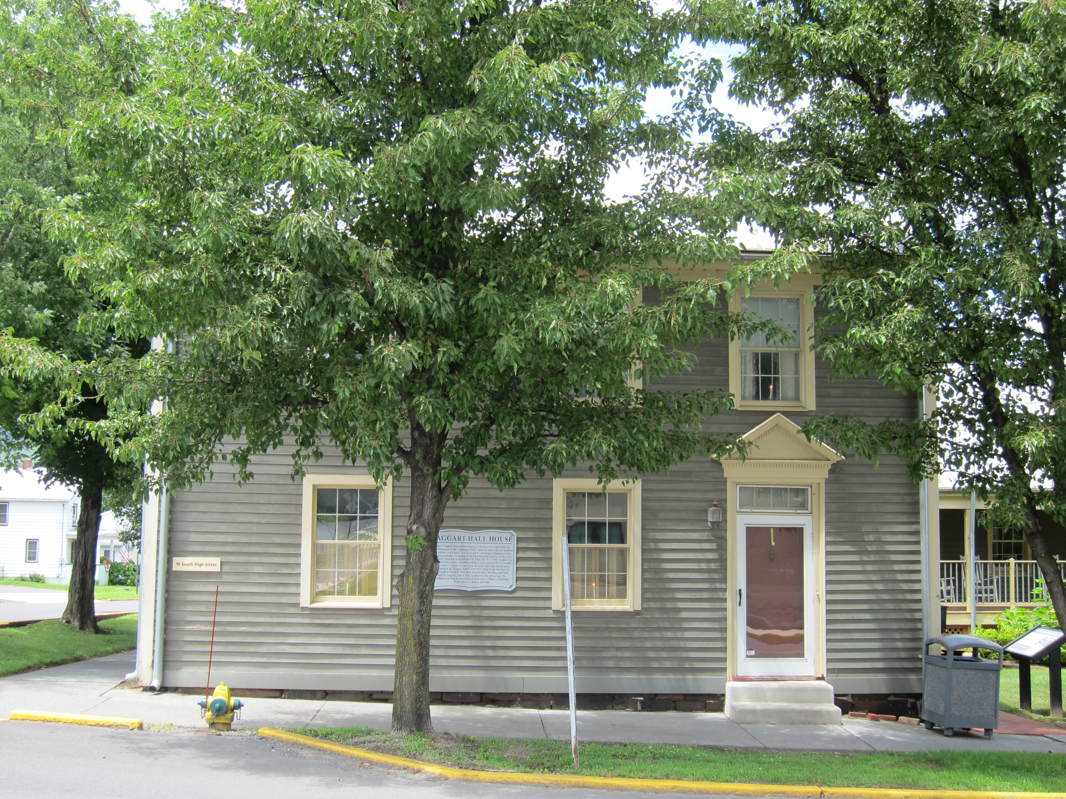 Taggart Hall (also known as Taggart Hall Civil War Museum and Visitors Center) is a late 18th-century residence and museum at the northwest corner of West Gravel Lane and South High Street in Romney in the U.S. state of West Virginia. Photographed by Quercus montana